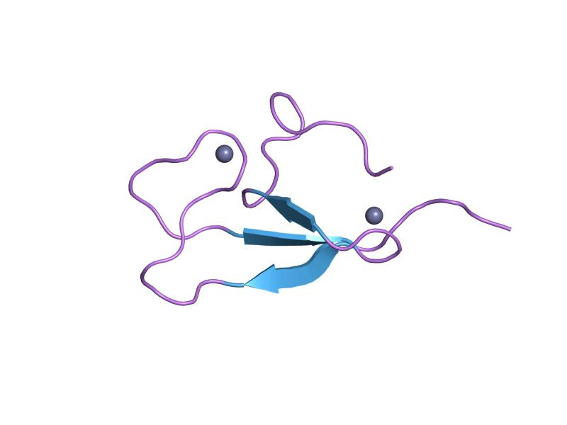 Cartoon representation of the molecular structure of protein registered with 1kbe code.